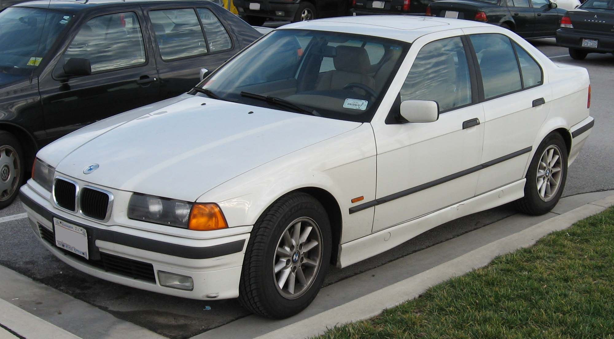 BMW 3-Series E36 photographed in USA.